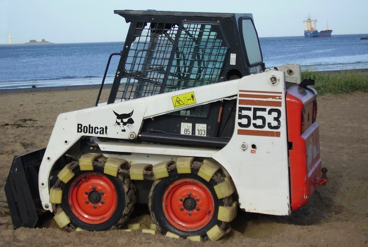 A Bobcat 553 skid-steer loader